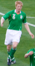 Paul McShane. Image cropped from original at flickr.